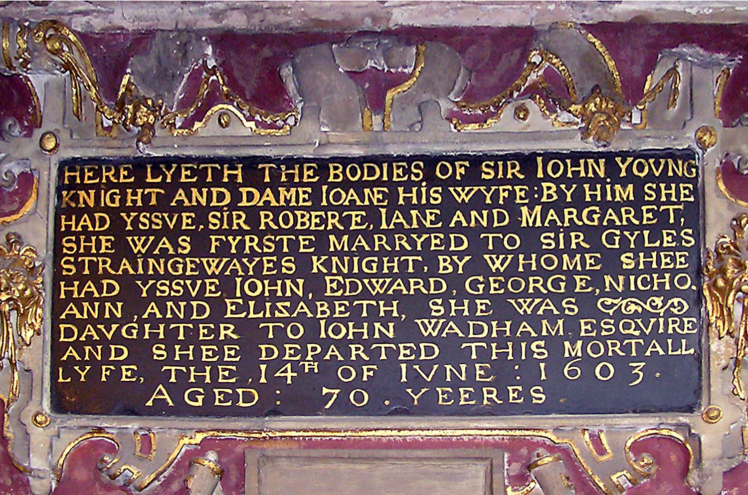 The inscription on the tomb of Sir John Young and Dame Joane, Bristol Cathedral, Bristol, England. The tomb was placed in the cathedral in 1606. Sir John entertained Queen Elizabeth when she visited Bristol in 1574 and was knighted by her. Inscribed: "Here lyeth the bodies of Sir John Young, Knight, and Dame Joane his wyfe. By him she had yssue Roberte, Jane and Margaret. She was fyrste marryed to Sir Gyles Straingewayes, Knight, by whome shee had yssue John, Edward, George, Nicho(las), Ann and Elizabeth. She was daughter to John Wadham, Esquire, and shee departed this mortall lyfe the 14th of June 1603 aged 70 yeeres " Taken by Adrian Pingstone in April 2005 and released to the public domain.